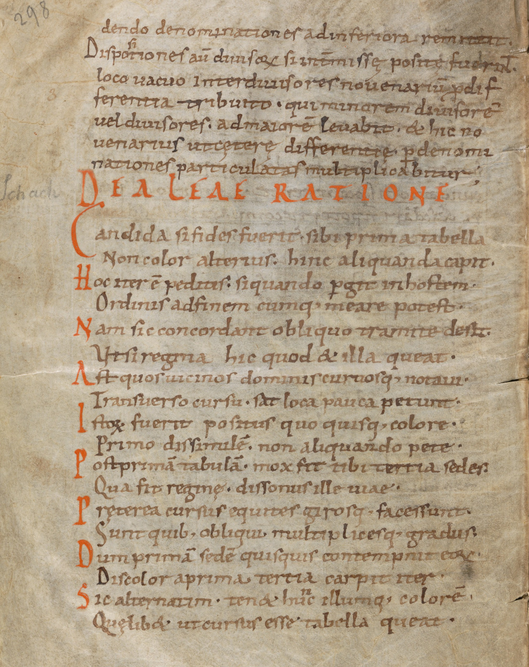 First page of the fragmentum de ludo scachorum. [1] (cod. 219, pp. 298f.) The codex contains entries of the late 10th to mid 11th century. The verses on chess are dated by Gamer (1954) to just before or just after AD 1000 (associated with the hand of annalistic entries of the 990s, and dated to not later than the first quarter of the 11th century). De Aleae Ratione Candida si fides fuerit sibi prima tabella Non color alterius, hinc aliquando capit. Hoc iter est peditis, si quando pergit in hostem, Ordinis ad finem cumque meare potest. Nam sic concordant obliquo tramite desit, Ut si regina hic quod et illa queat. Ast quos vicinos dominis curvosque notavi, Transverso cursu, sat loca pauca petunt. Istorum fuerit positus quo quisque colore, Primo dissimilem non aliquando pete. Post primam tabulam, mox fit sibi tercia sedes, Qua fit reginæ, dissonus ille uiæ. Preterea cursus equites girosque facessunt, Sunt quibus obliqui multiplicesque gradus: Dum primam sedem quisquis contempnit eorum, Discolor a prima tercia carpit iter, Sic alternatim, tenet hunc illumque colorem, Quælibet ut cursus esse tabella queat.